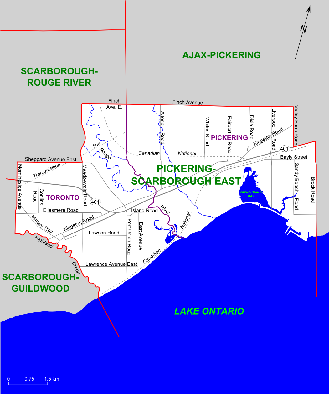 Map of the Ontario federal and provincial riding of Pickering-Scarborough East (boundaries defined in 2003, adopted federally in 2004 and provincially in 2007)